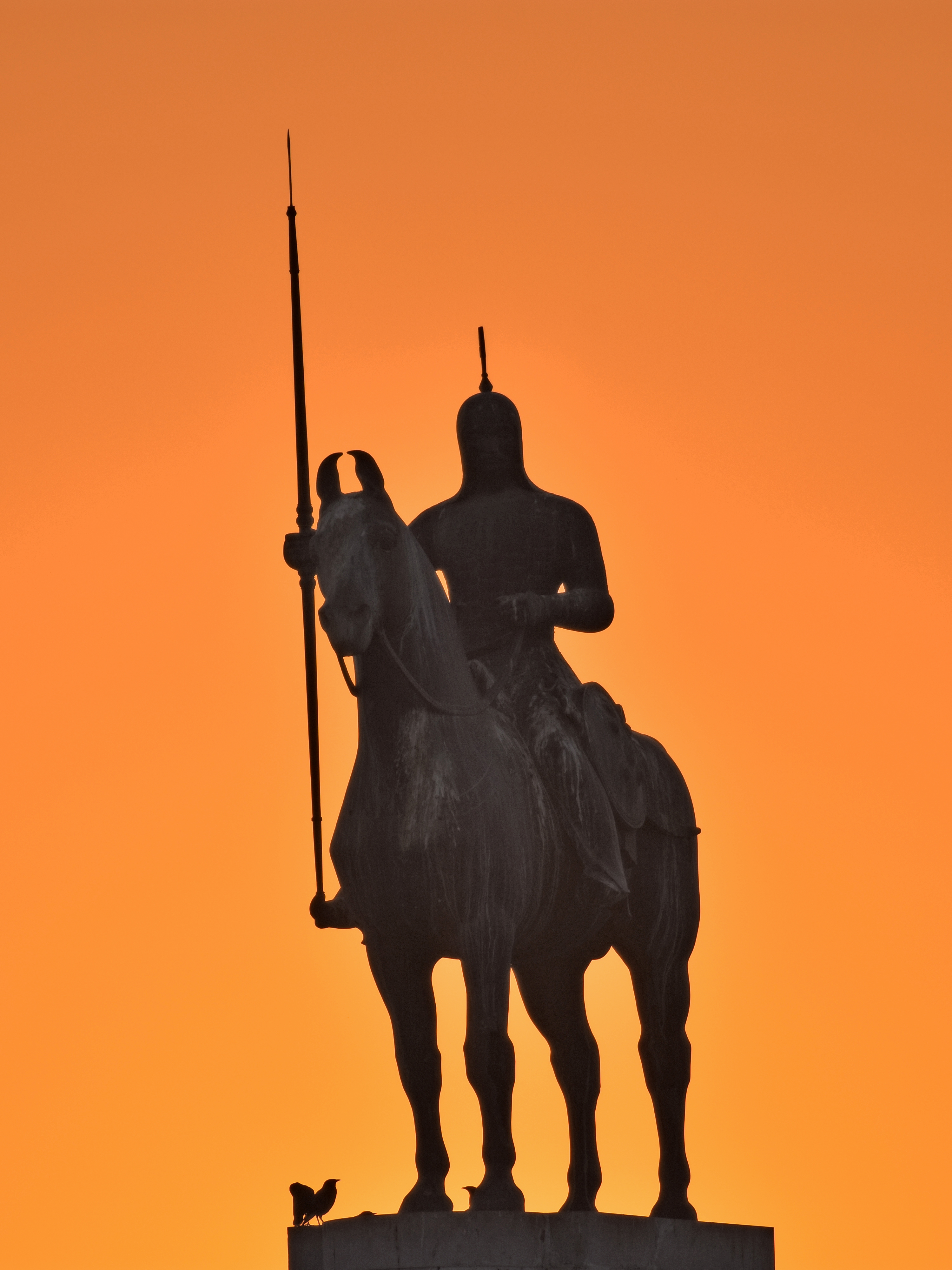 Jam Rawal